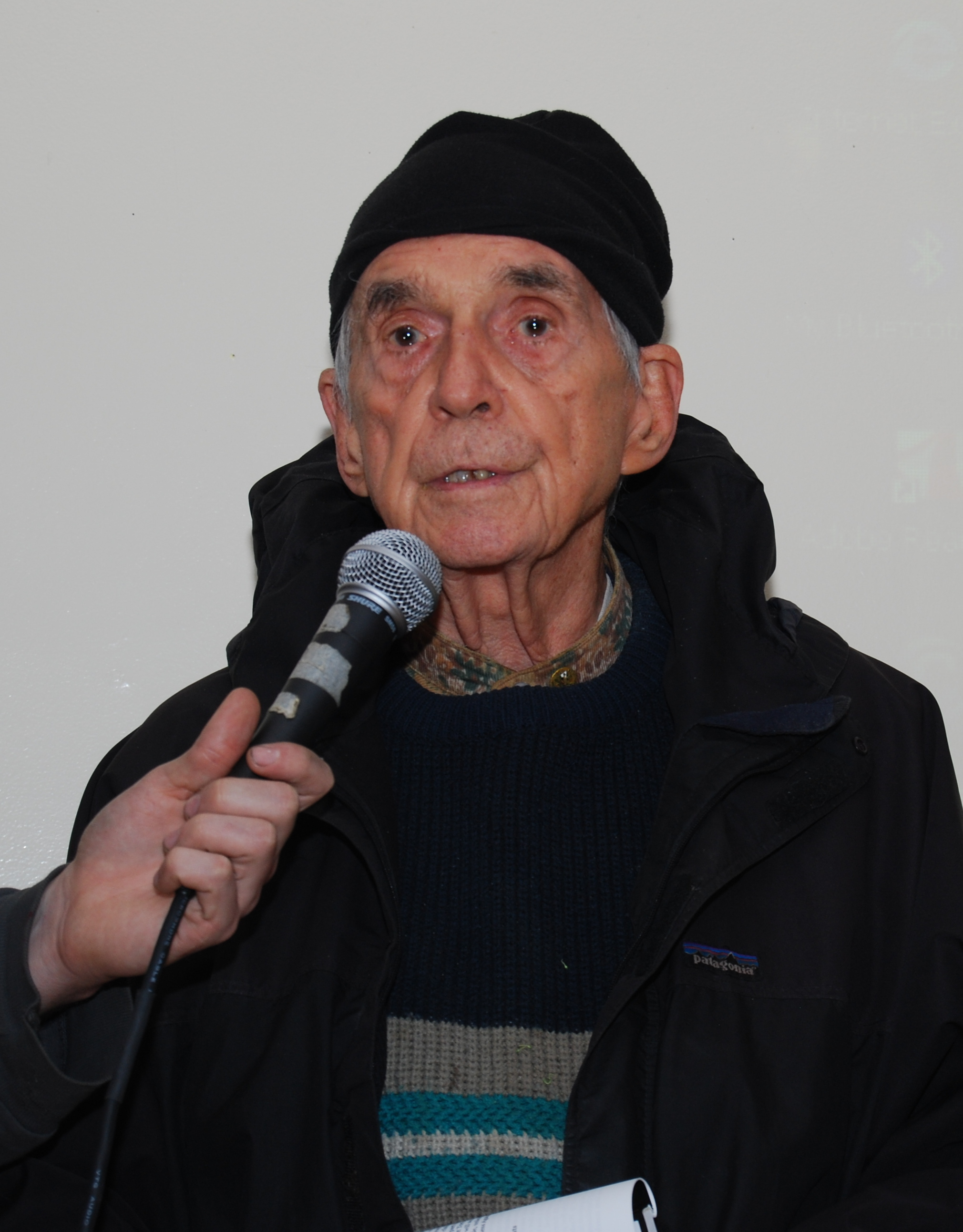 Radical priest Daniel Berrigan speaking at a Witness Against Torture event held on December 18th, 2008 in the Lower East Side (New York City).